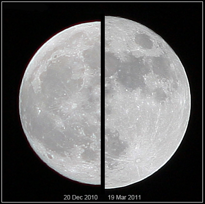 The "Supermoon" of March 19, 2011 (right), compared to a rather "average" moon of December 20, 2010 (left): note the size difference. Images by Marco Langbroek, the Netherlands, using a Canon EOS 450D + Carl Zeiss Jena Sonnar MC 180mm lens.